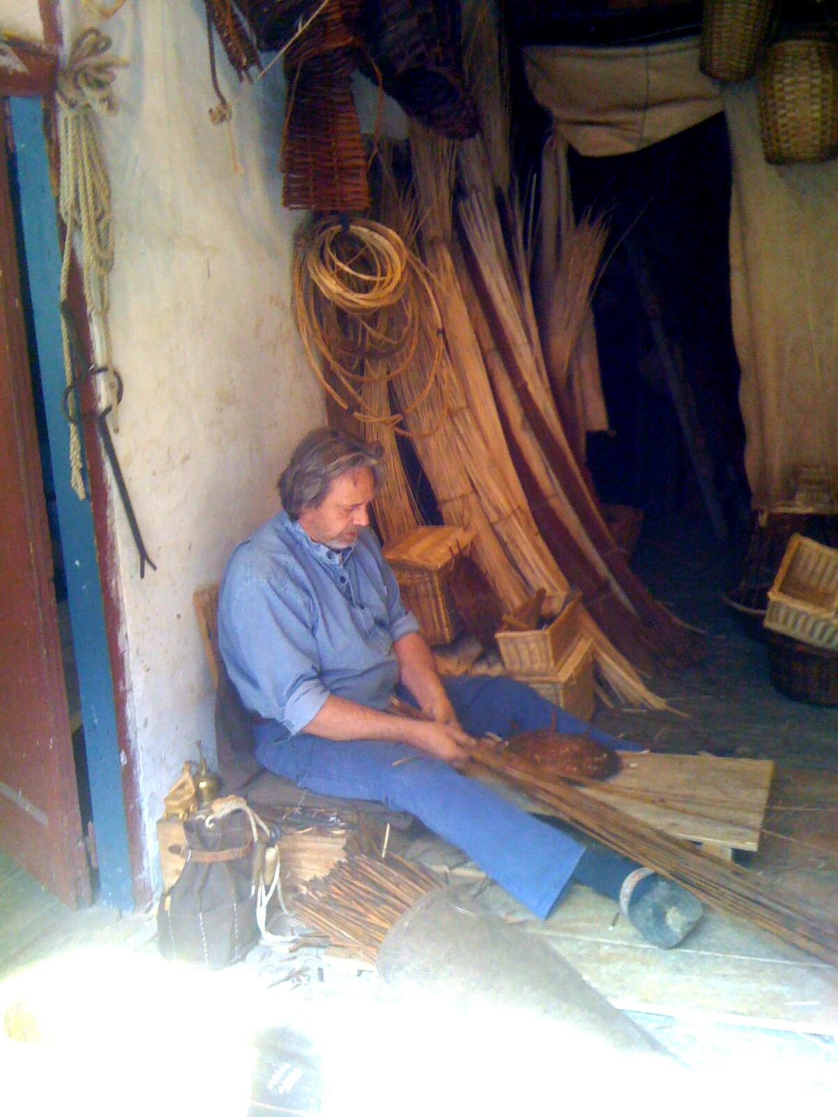 Basketmaker Zuiderzeemuseum